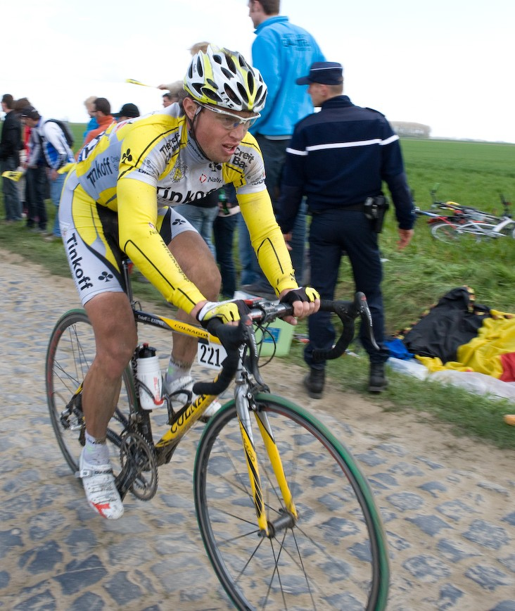 Michail Ignatiev at Paris-Roubaix 2008